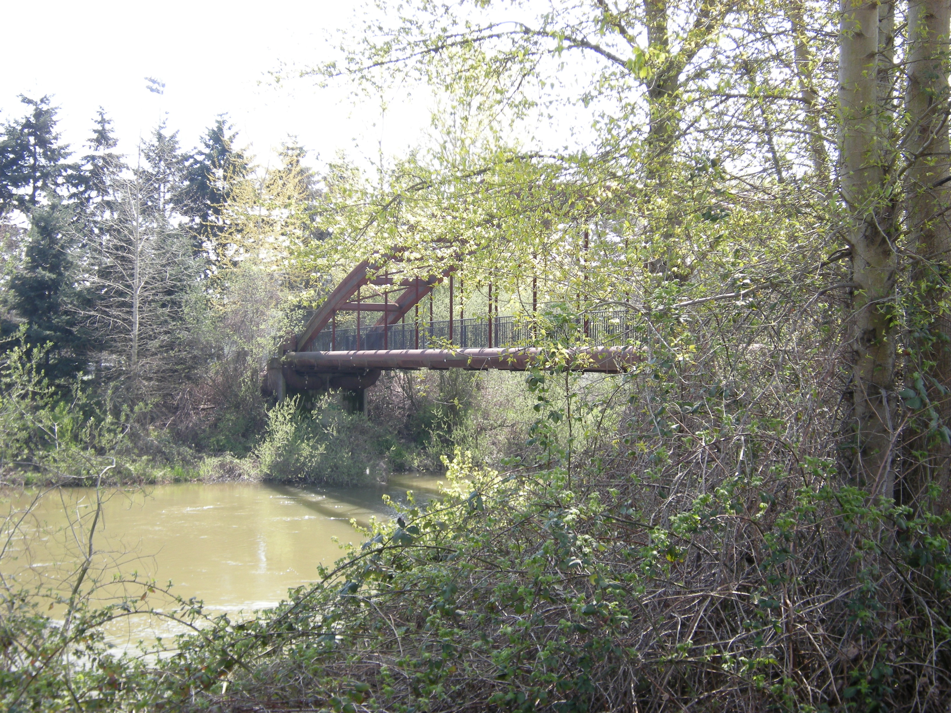 Fort Dent Pedestrian Bridge, Tukwila, Washington. This bridge carries the Green River Trail across the lowest reach of the Green River. Just below the bridge is the confluence with the Black River (now little more than a stream and storm drainage) forming the Duwamish River. Seen here from the left bank of the Duwamish, looking upstream to the Green.